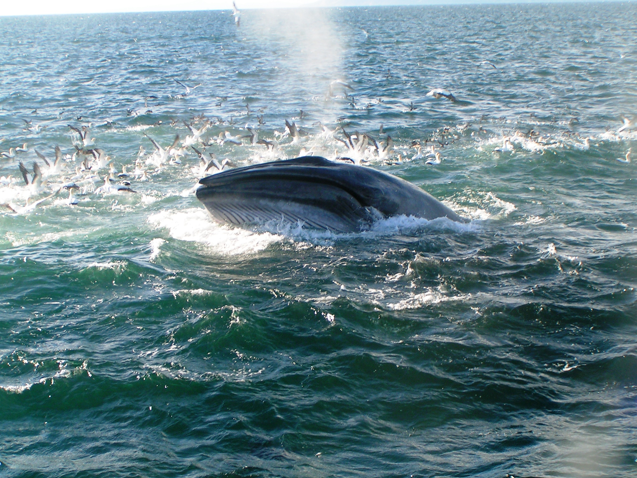 A resident population of around 200 Bryde's Whales call the Hauraki Gulf home. They are critically endangered in New Zealand waters.